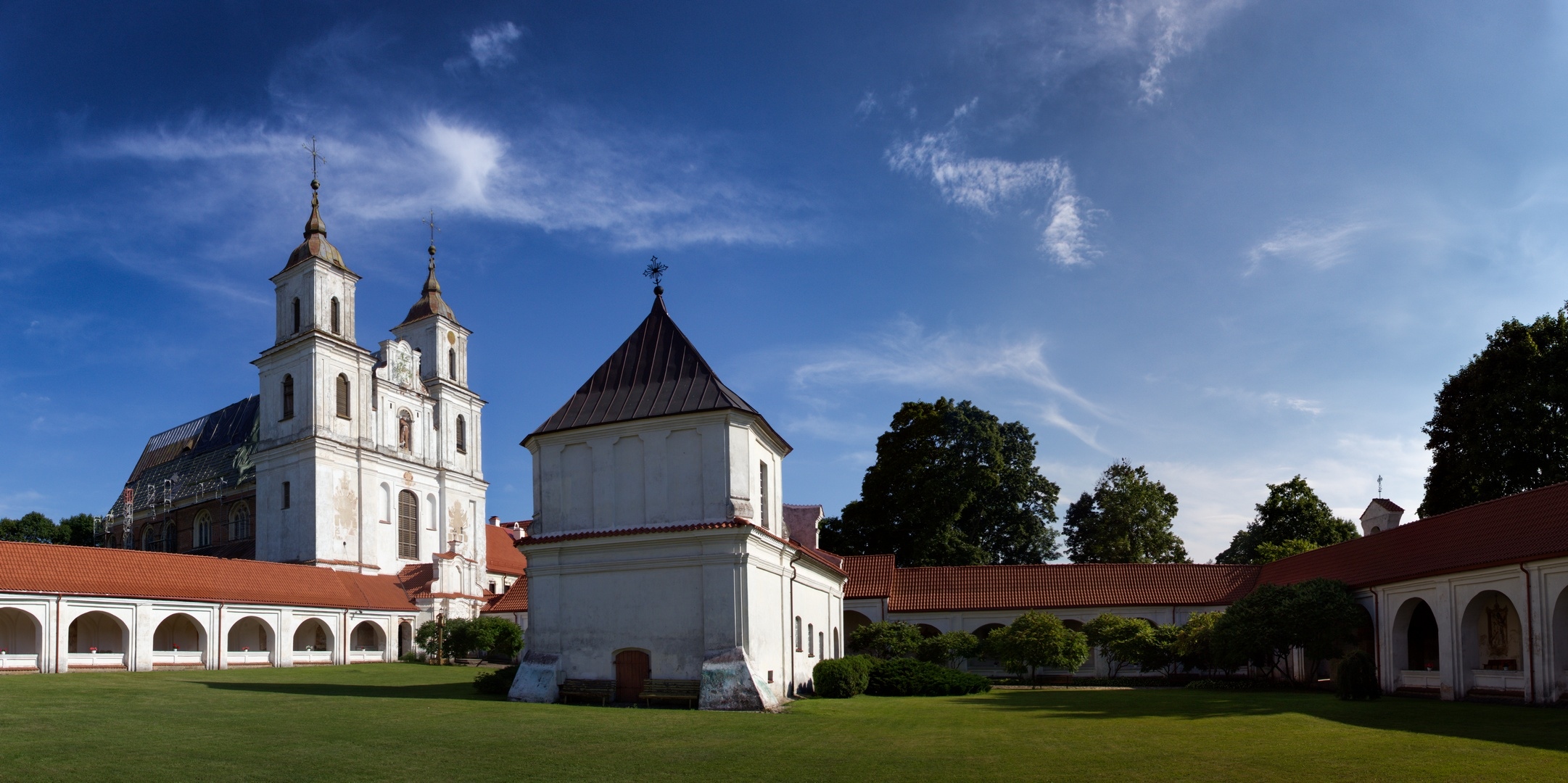 Tytuvėnai Church (2013)